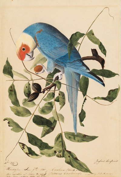 Juglane oliveformia. Carolina Parrot in[?] Willow from imitation of colors [?] Psittacus Carolinensis. N.p., June 9. 1811 depicts the Carolina Parakeet (Conuropsis carolinensis) amidst a leafy branch. An early piece by John James Audubon. Courtesy Harvard University Press